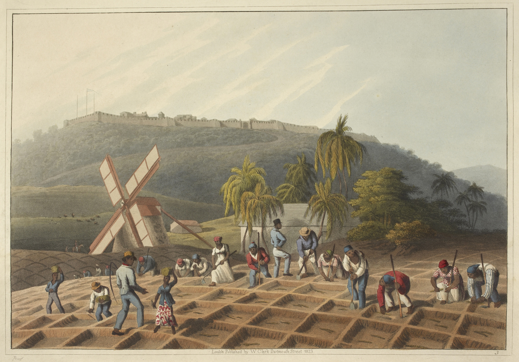 Slaves working on a plantation Planting the sugar cane.